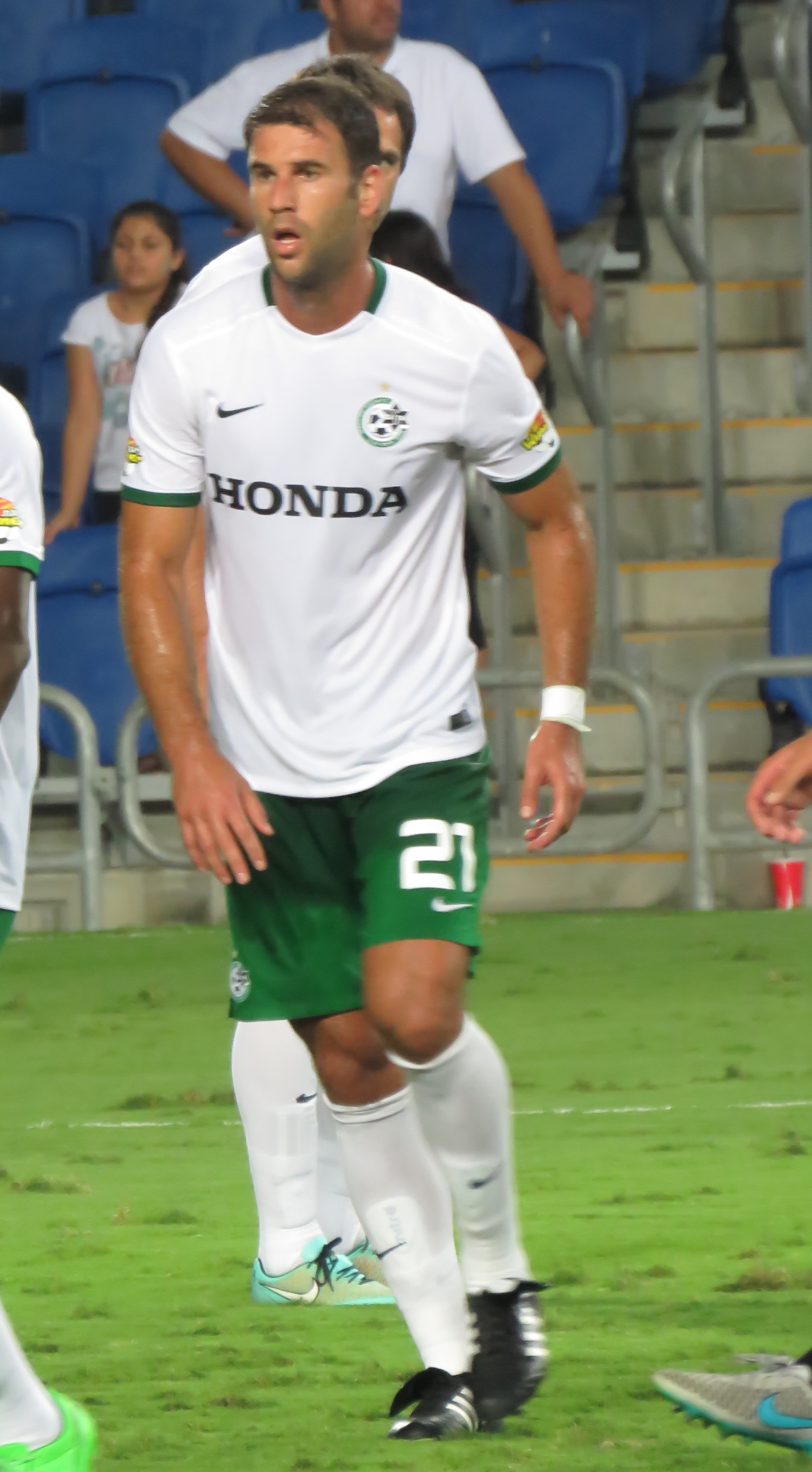 Hapoel Ra'anana vs. Maccabi Haifa F.C., 3 October, 2015